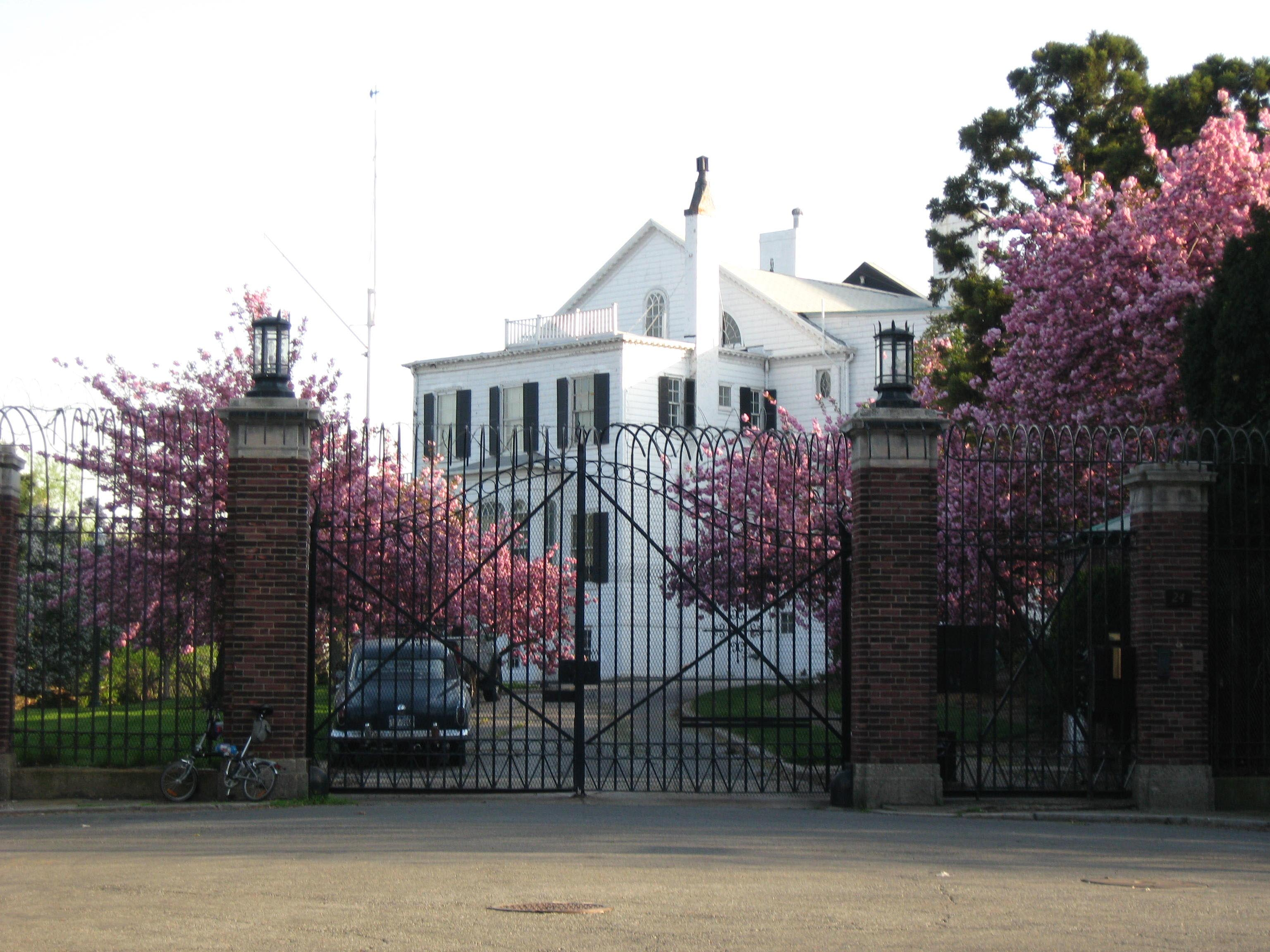 Looking south from Little Street at Quarters_A Commandant's house in Brooklyn Navy Yard late on a partly cloudy springtime afternoon.